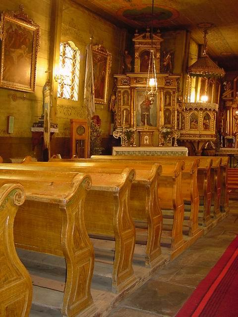 Sacred Heart